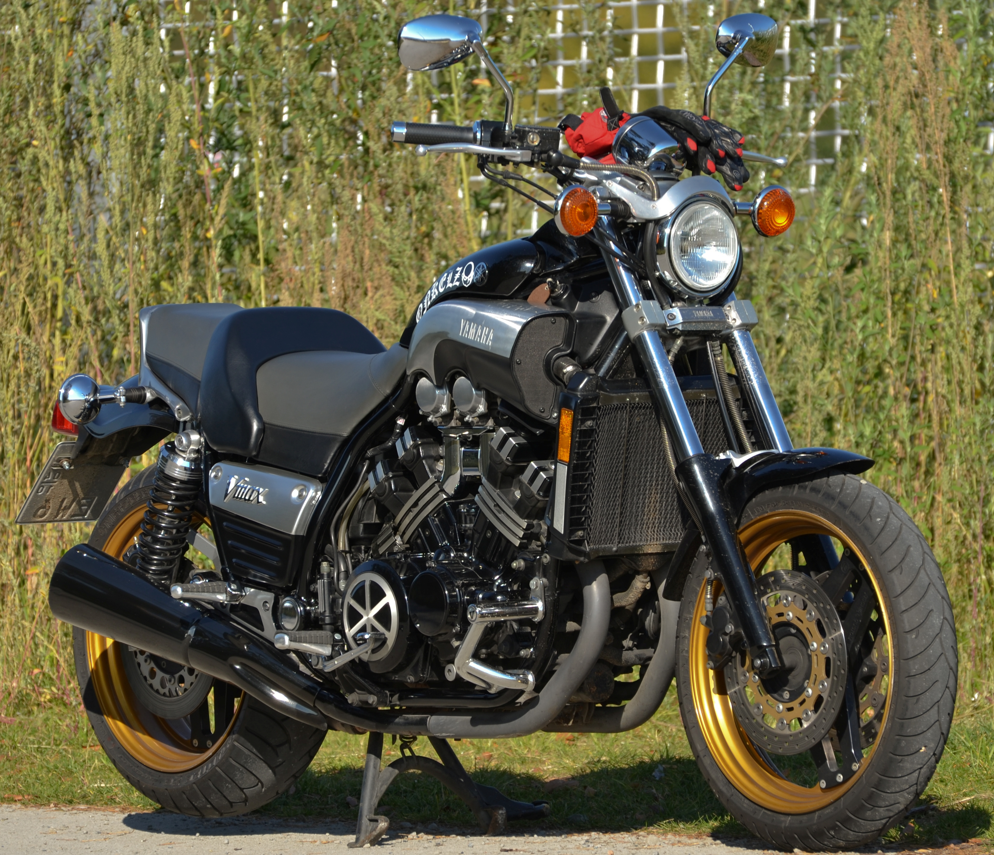 Yamaha Vmax (VMX 1200) motorbike, near airport Frankfurt, Germany